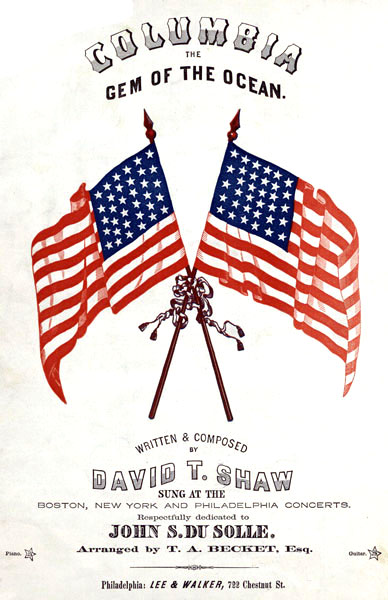 Cover of sheet music for "Columbia, Gem of the Ocean" words and music by David T. Shaw, arranged by T.A. Becket, Philadelphia: Lee & Walker, c. 1862 (first published in 1843)